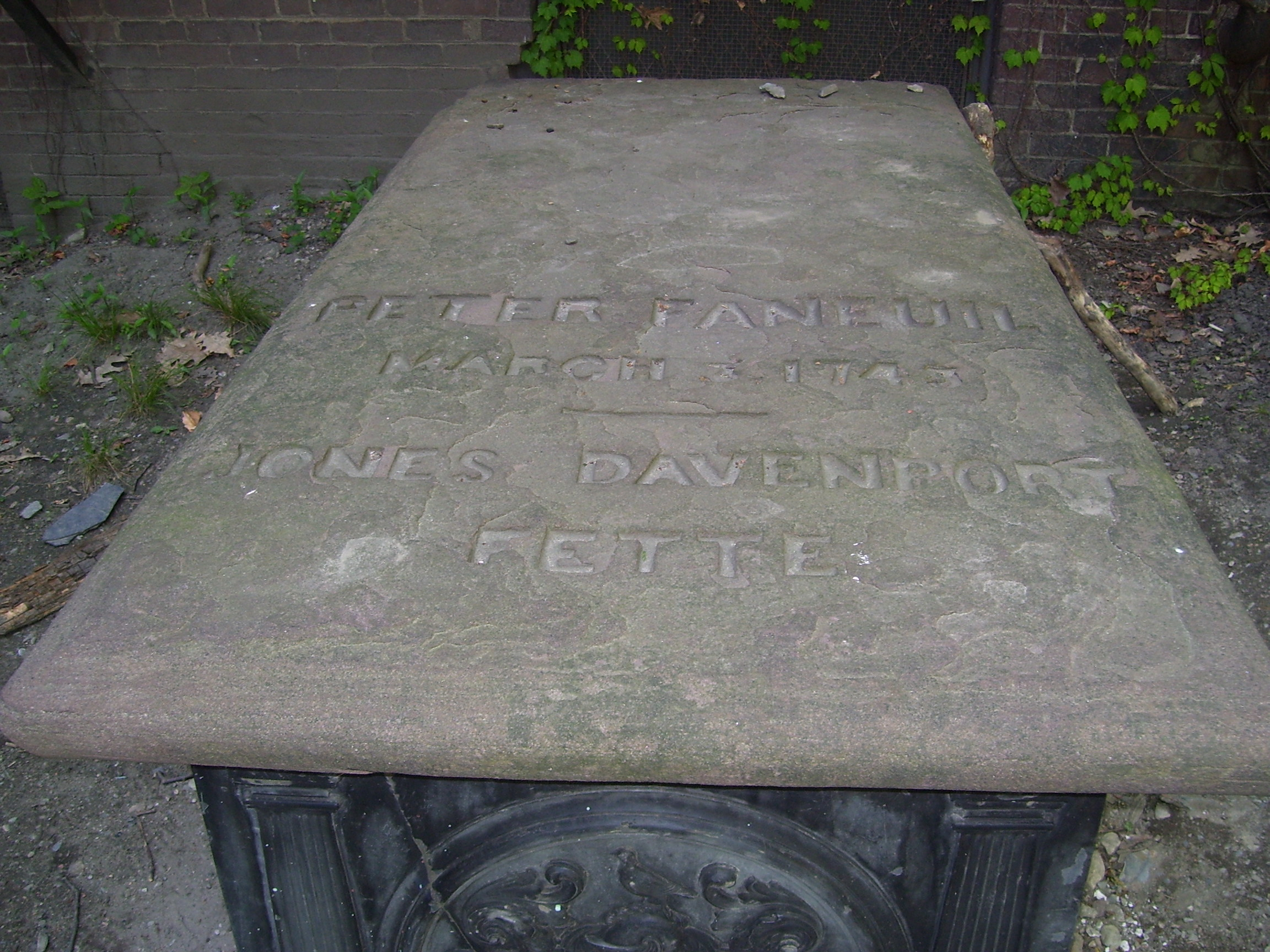 My 2008 photo of the Peter Faneuil Tomb in the Granary Burying Ground in Boston MA.